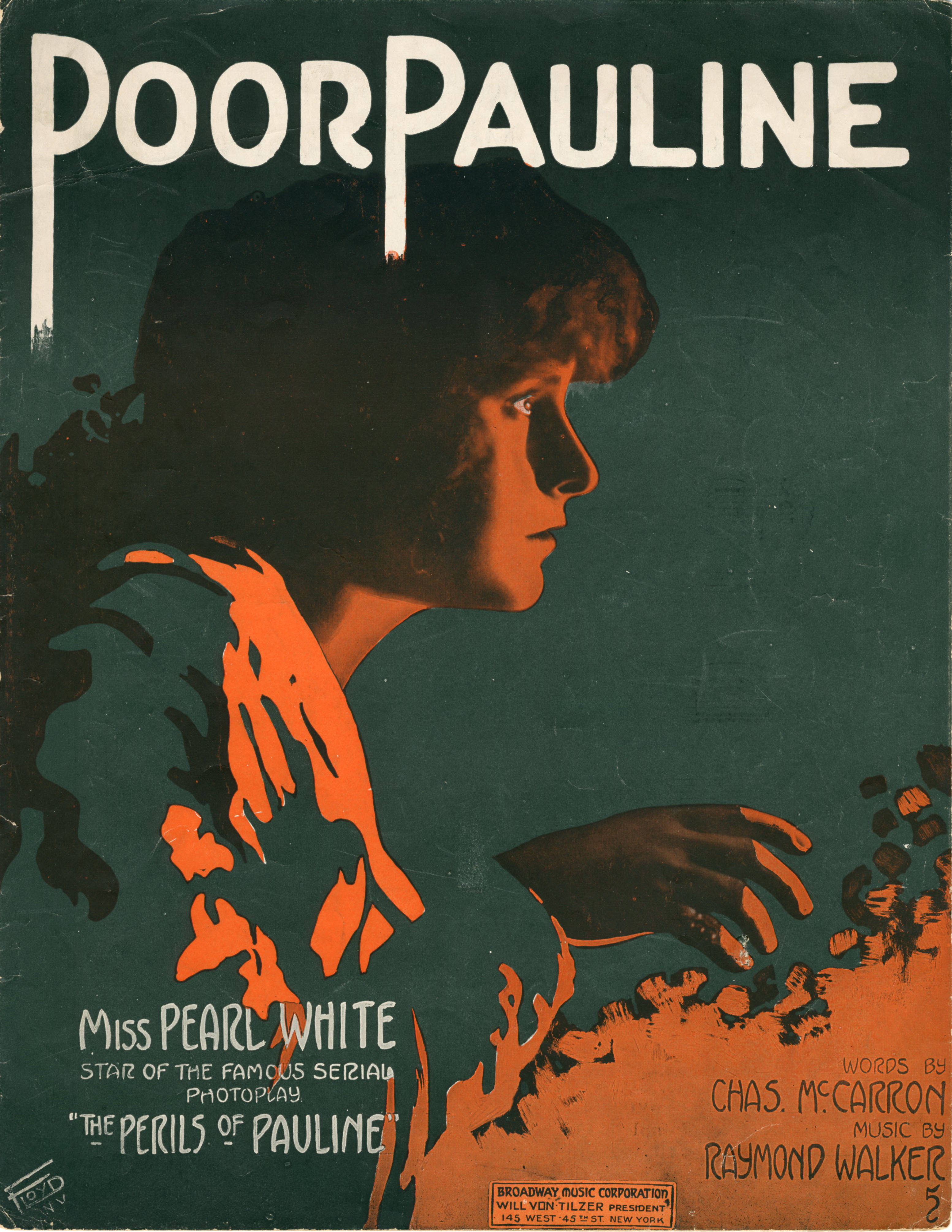 Sheet music cover: "Poor Pauline" 1 vocal score (5 p.) ; 34 cm. Illustrated cover with image of Pearl White / Floyd. The Perils of Pauline (Motion picture serial : 1914)